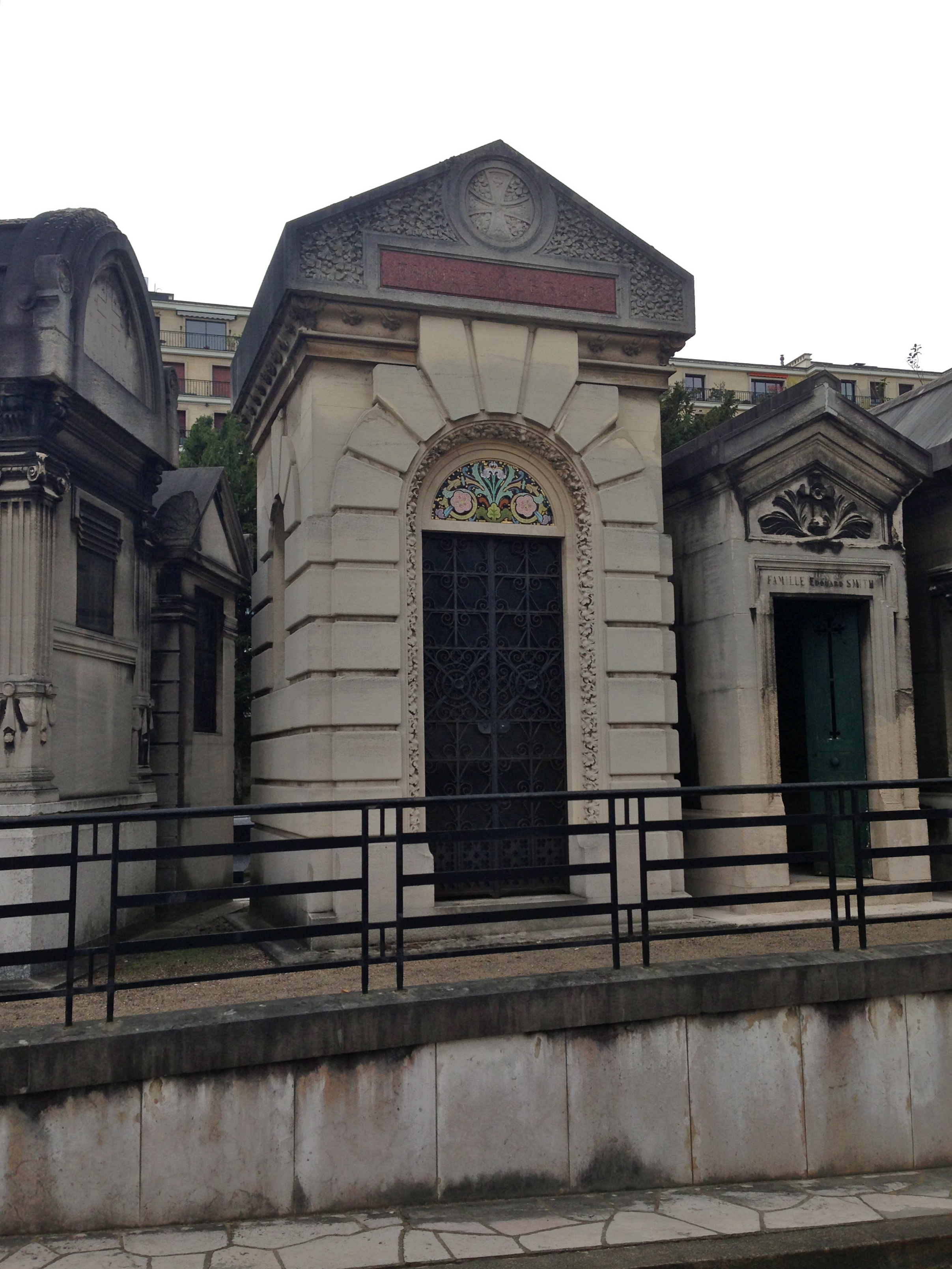 Jacques Guerlain Passy Cemetery, Paris